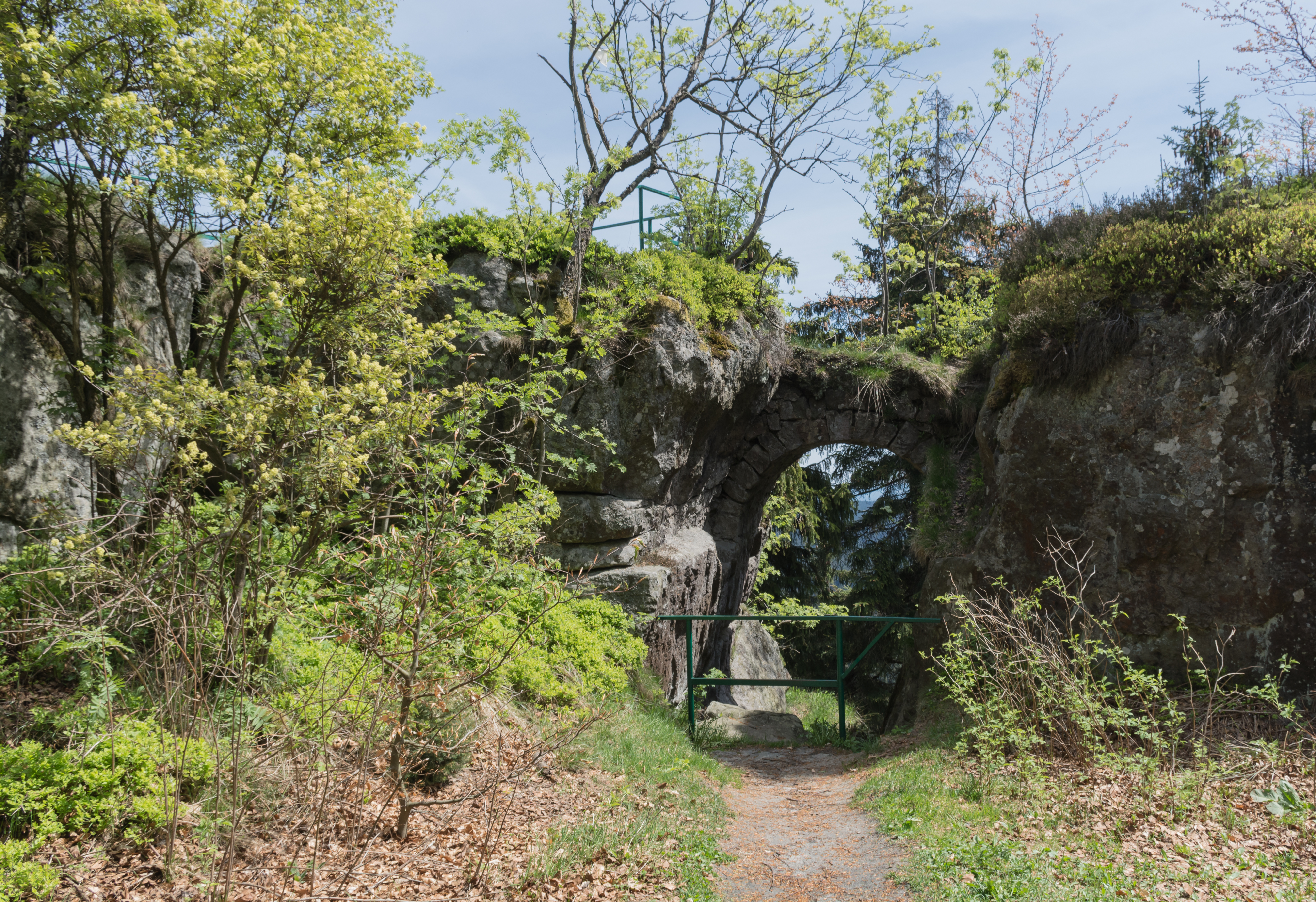 Fort Charles in Stołowe Mountains